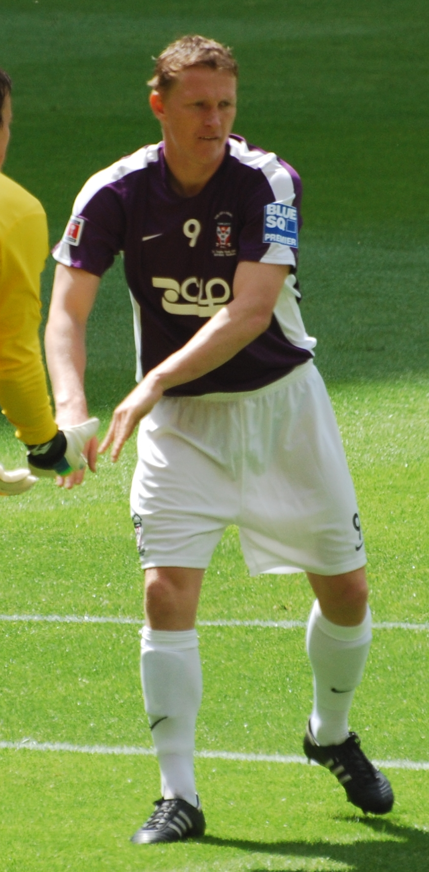 Daniel McBreen playing for York City against Stevenage Borough at Wembley Stadium, London on 9 May 2009